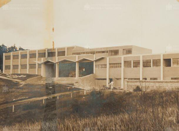 Faculdade de Direito de São Bernardo do Campo em 1964